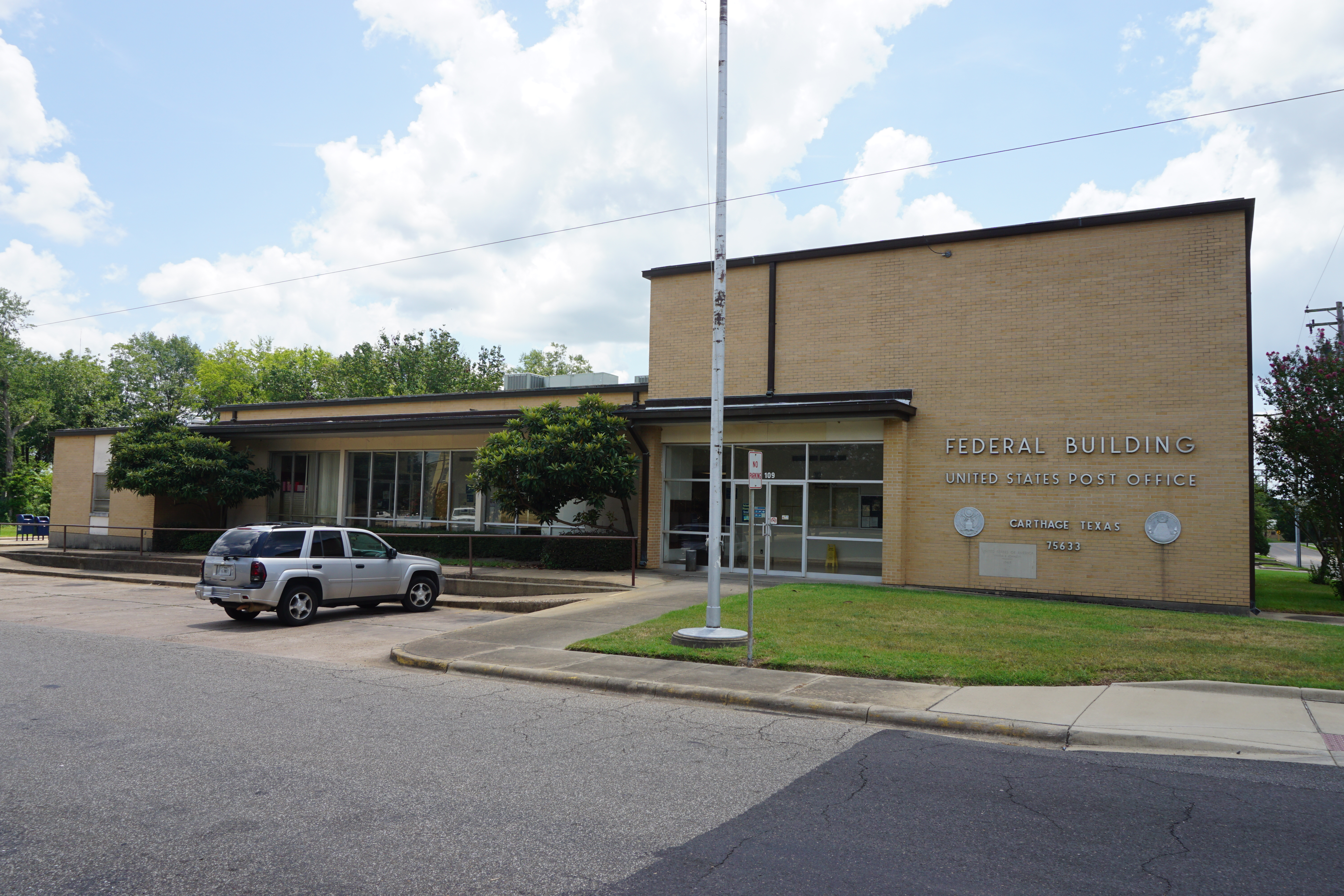 The United States Post Office in Carthage, Texas (United States).